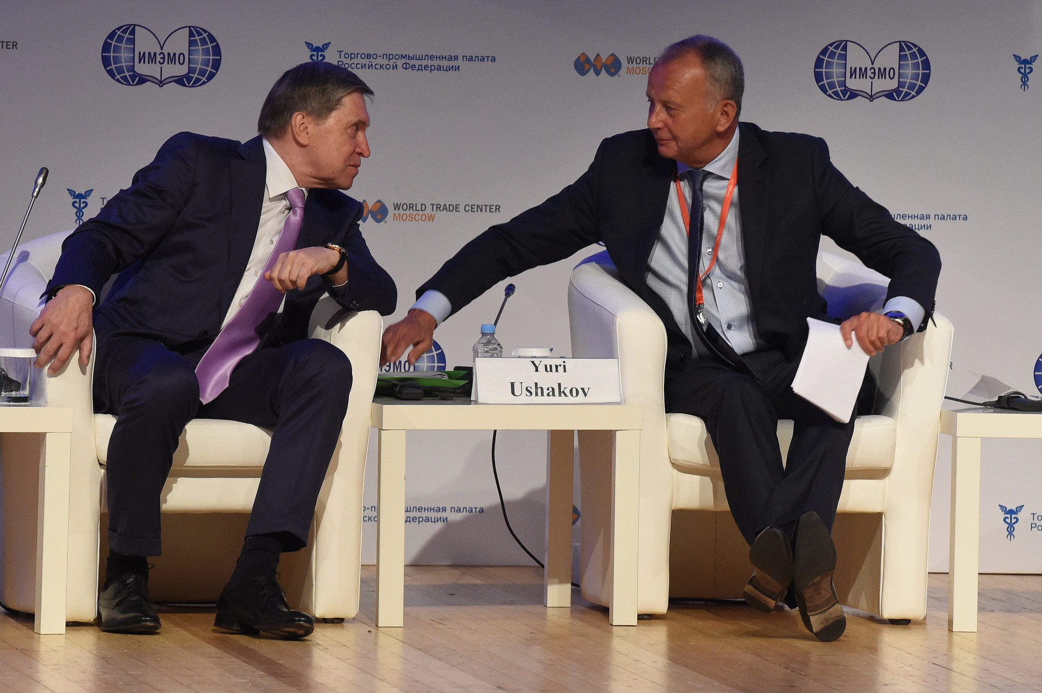 Yuriy Ushakov and Alexander Dynkin at Primakov Readings 2017.